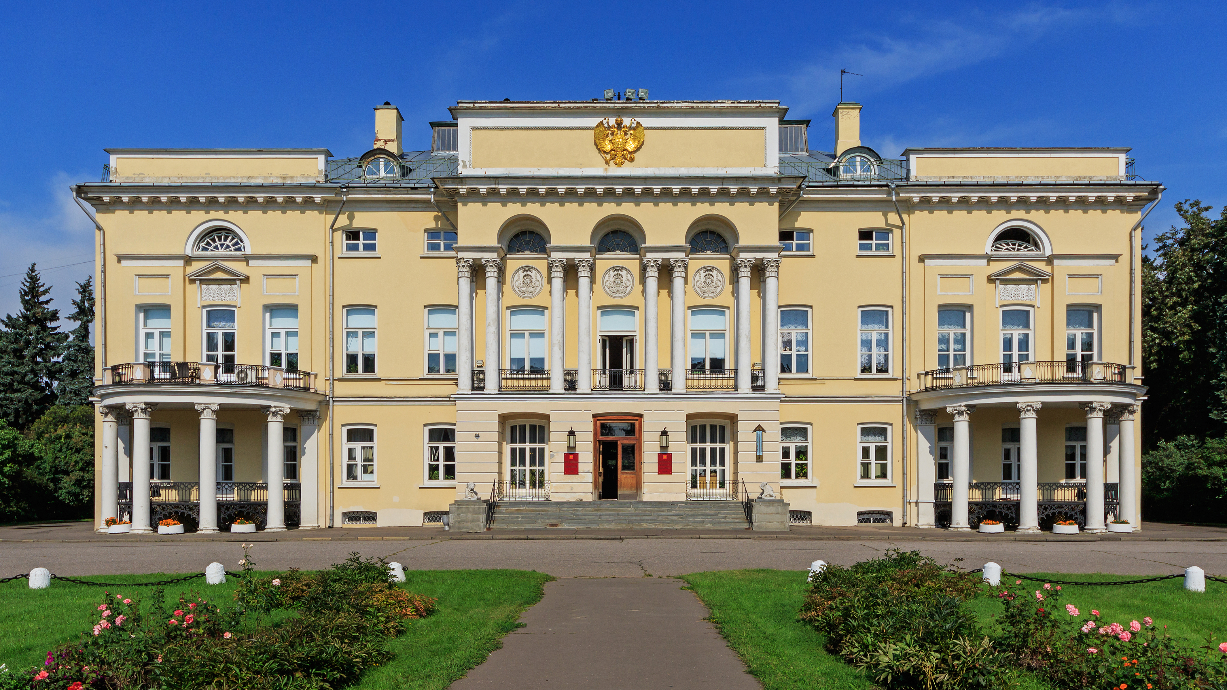 Street side of Alexandriysky Palace (part of former Neskuchnoe Estate). Moscow, Russia.